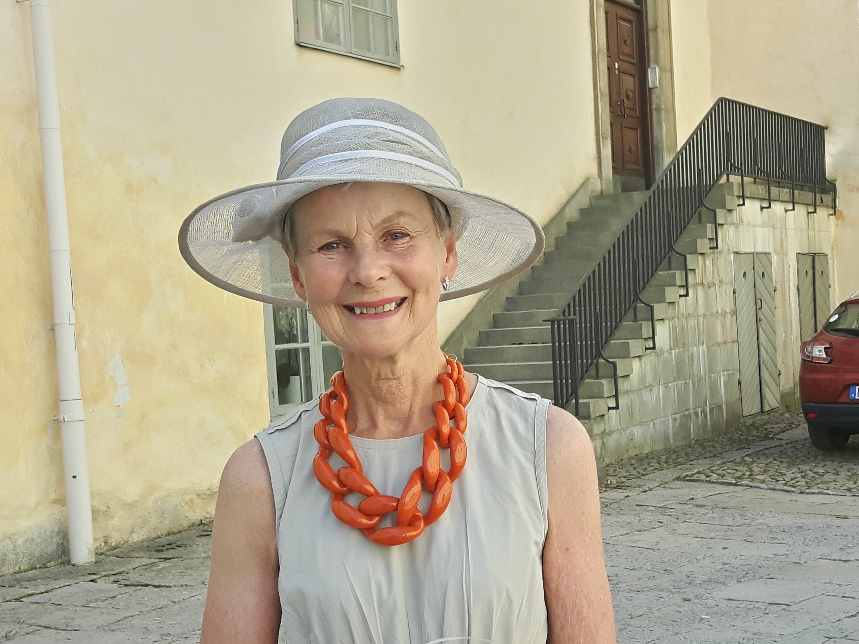 Elisabeth Nilsson, county governor, at Linköping castle